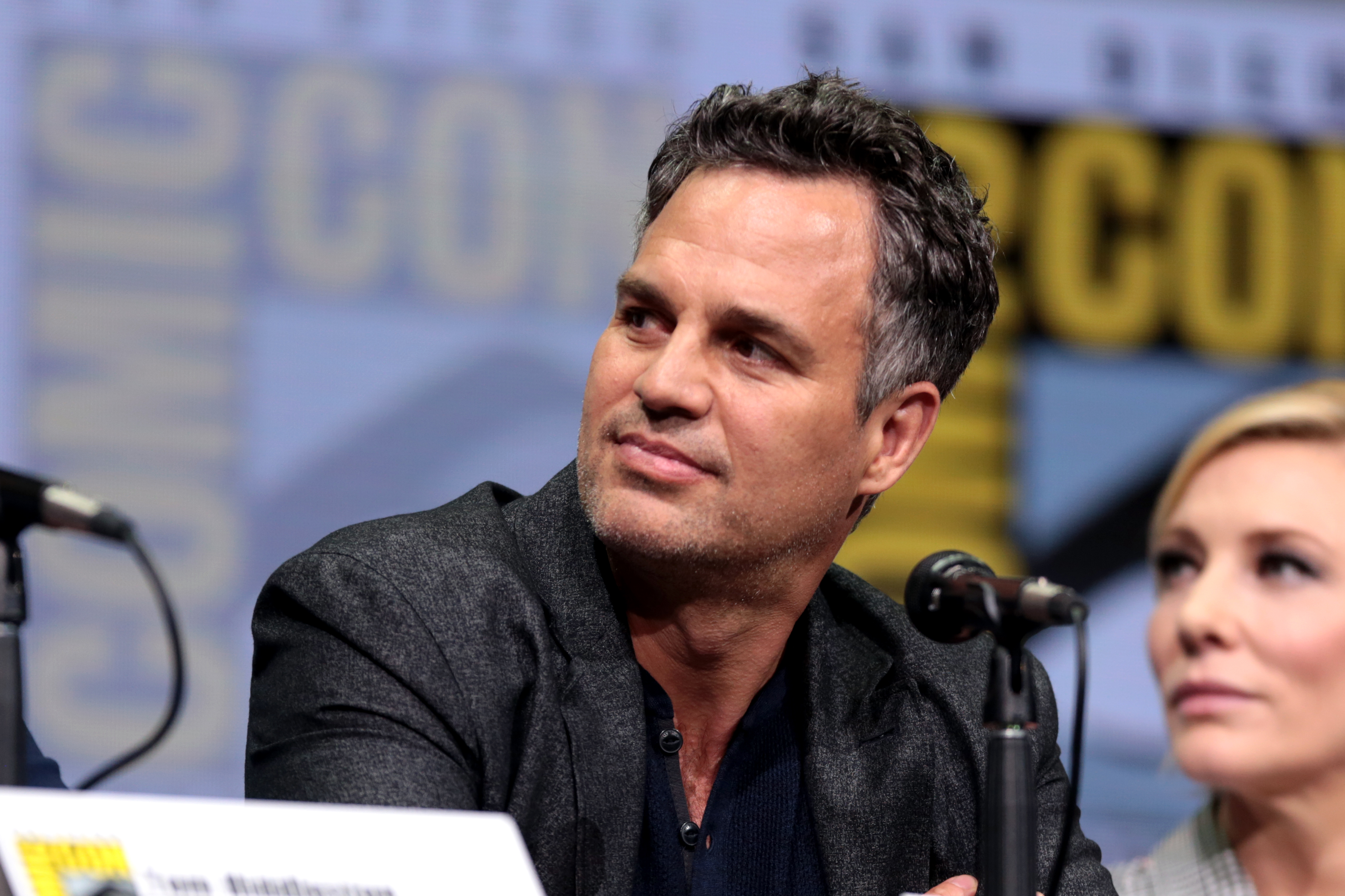 Mark Ruffalo speaking at the 2017 San Diego Comic Con International, for "Thor: Ragnarok", at the San Diego Convention Center in San Diego, California.